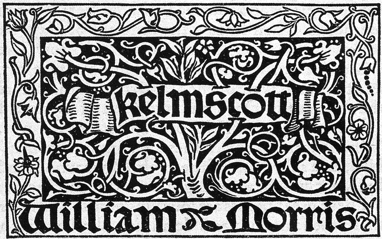 Kelmscott Press logotype.